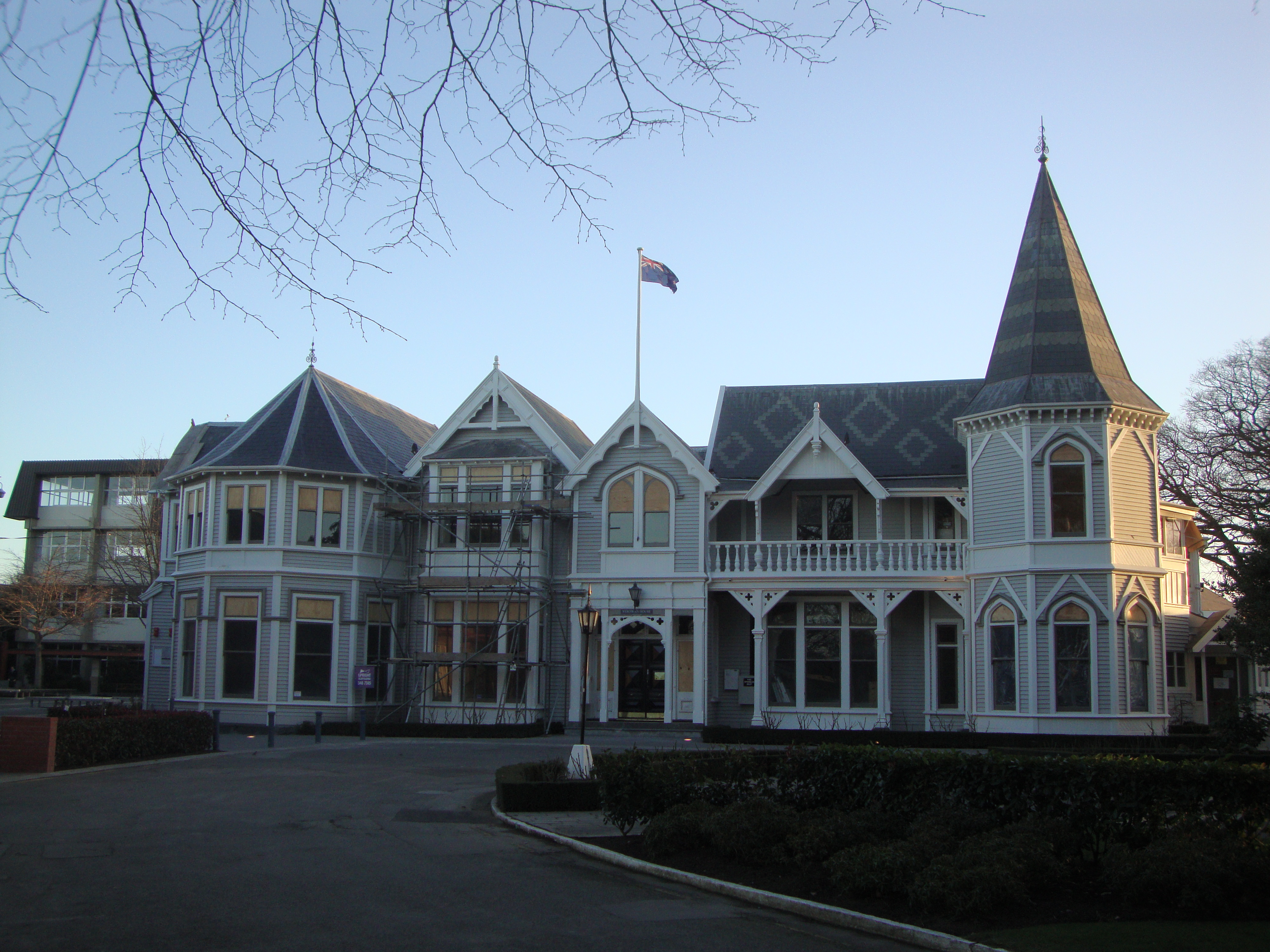 Strowan House in August 2011, undergoing earthquake repairs.